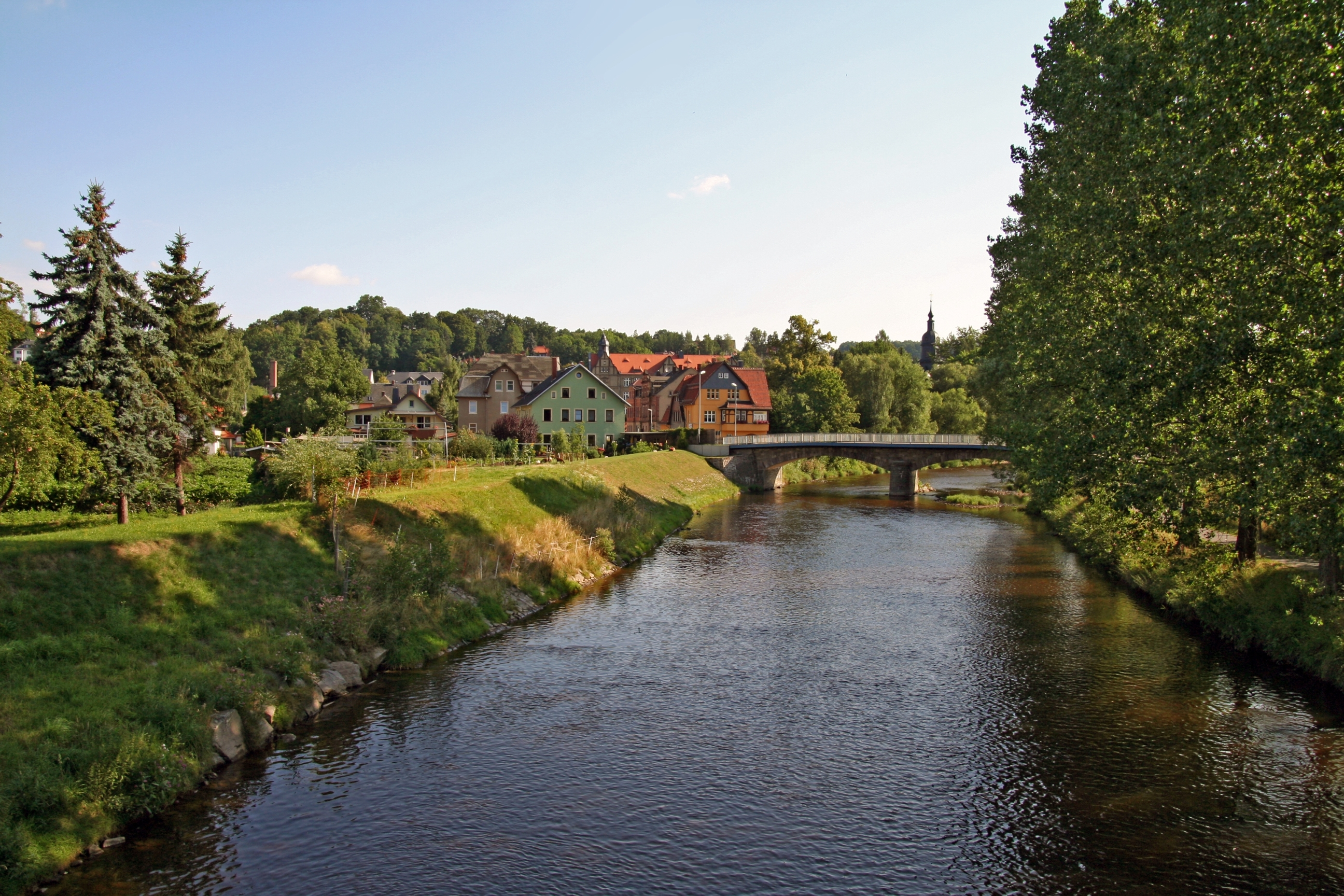 Flöha, Saxony (river and town)